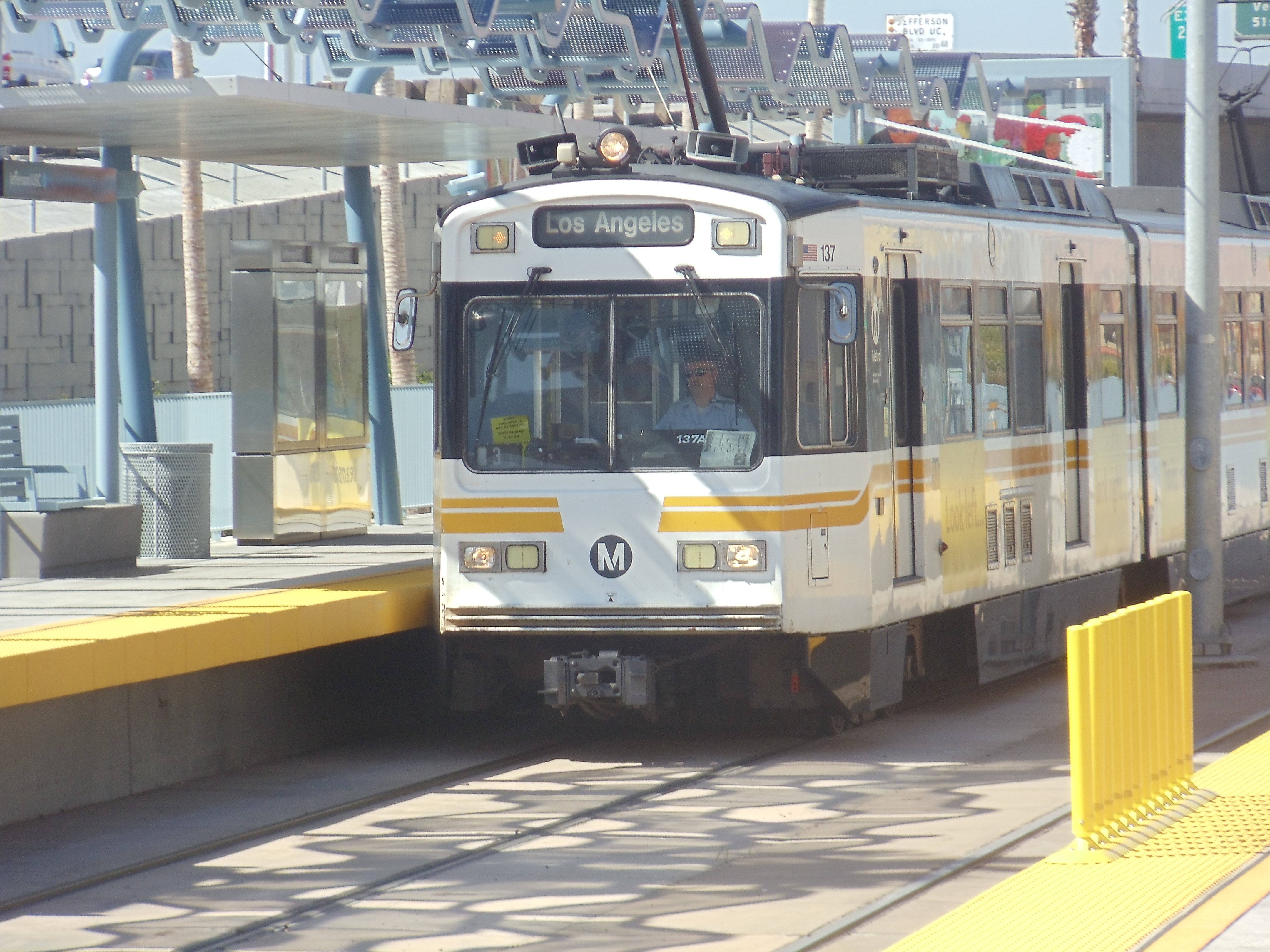 Expo Line train arriving at the station.